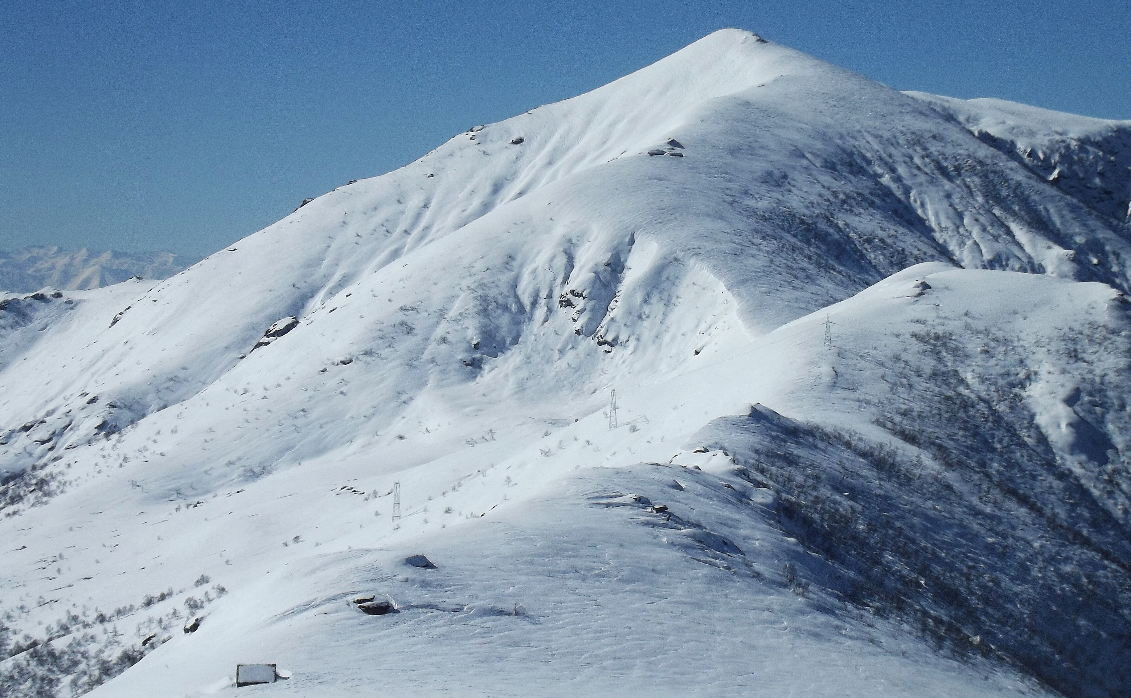 Monte Soglio (Graian Alps, Italy) seen from Cima Mares